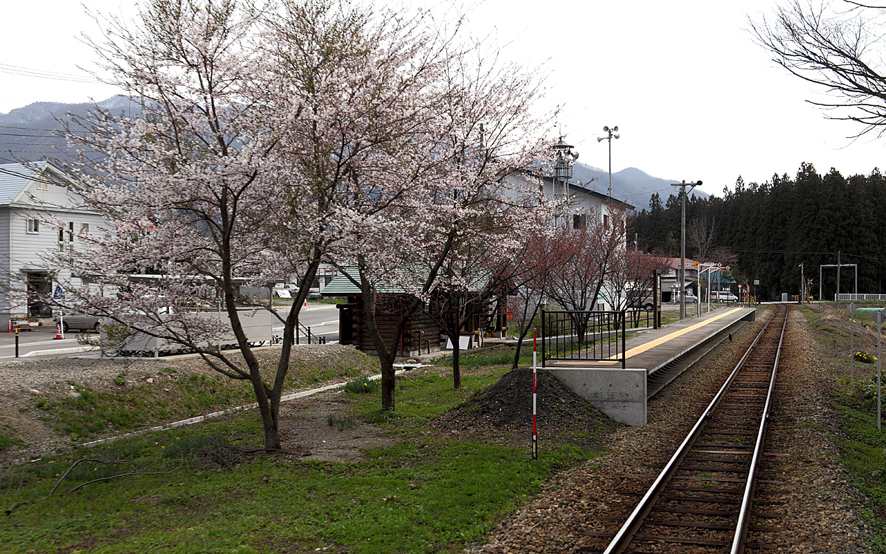 Aizu Railway Yōson-Kōen Station